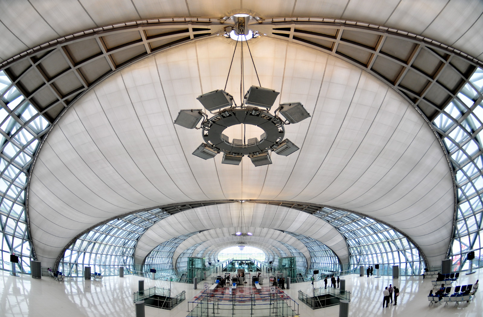 Suvarnabhumi is such a curvy airport...that my Tokina 10-17mm works just great here